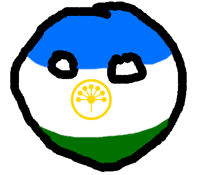 Polandball representation of Bashkortostan/Bashkiria